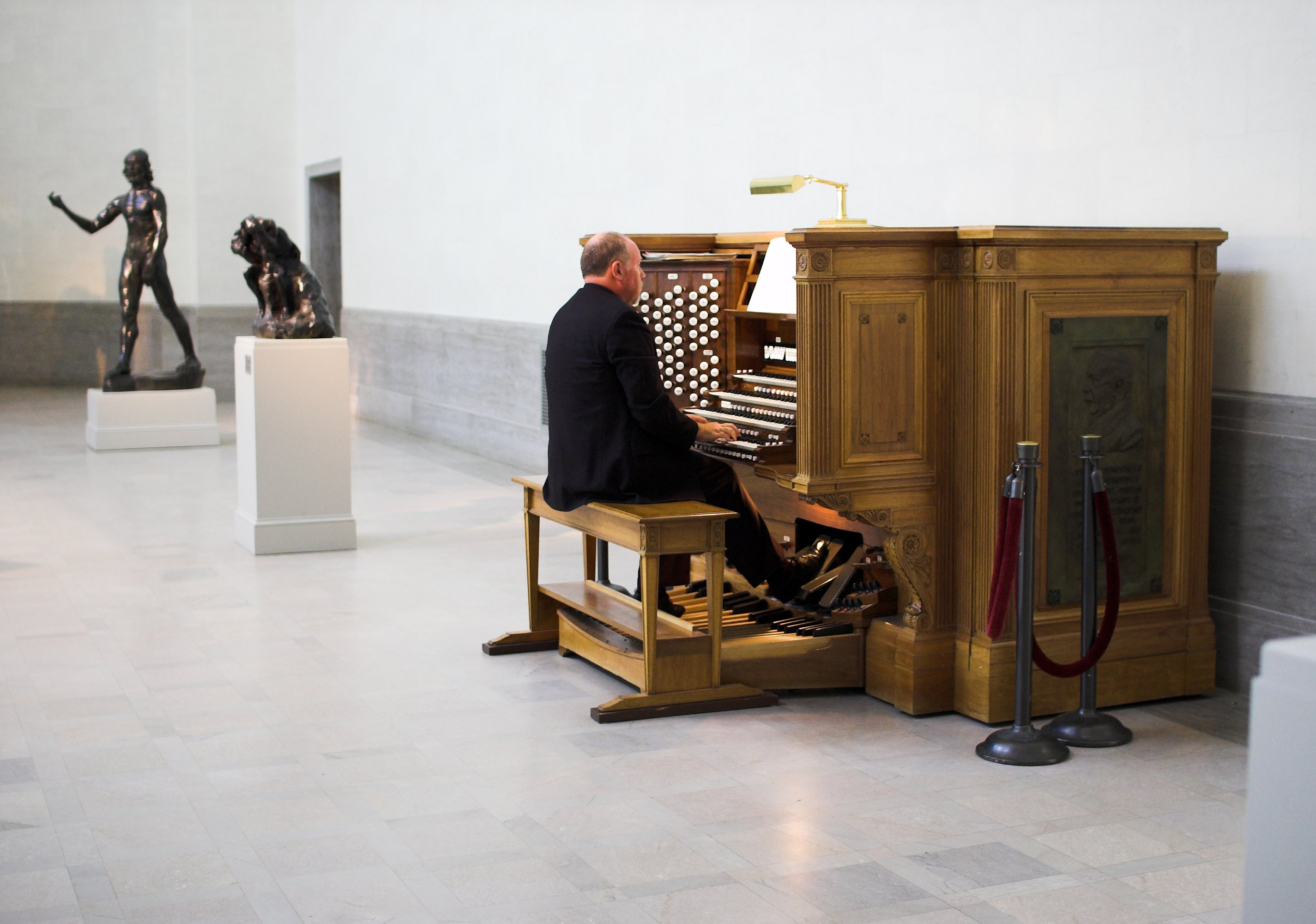 Organist performing at the California Palace of the Legion of Honor. Photograph taken by me, Joshua M. Thompson.